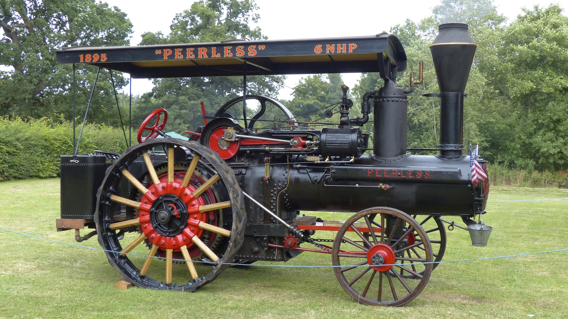 Poole Town & Country Fair, Upton Country Park, Dorset. UK